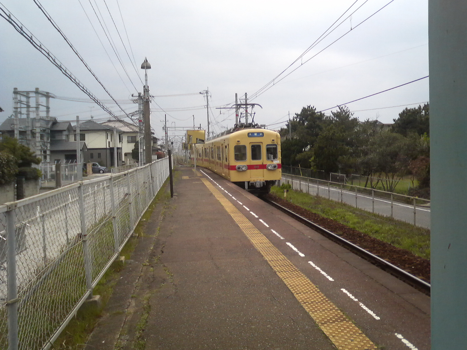 Nishitetsu Miyajidake Line Hanami Station platform